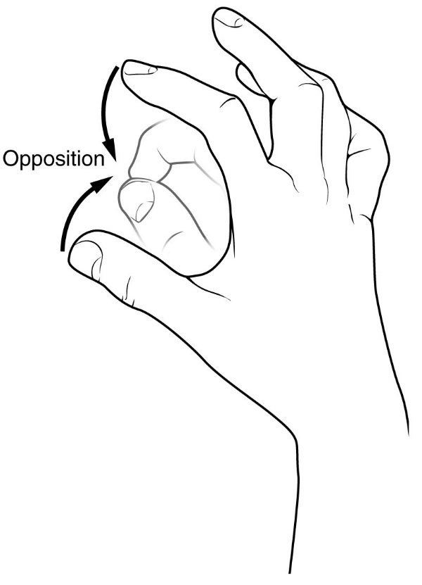 Opposition.